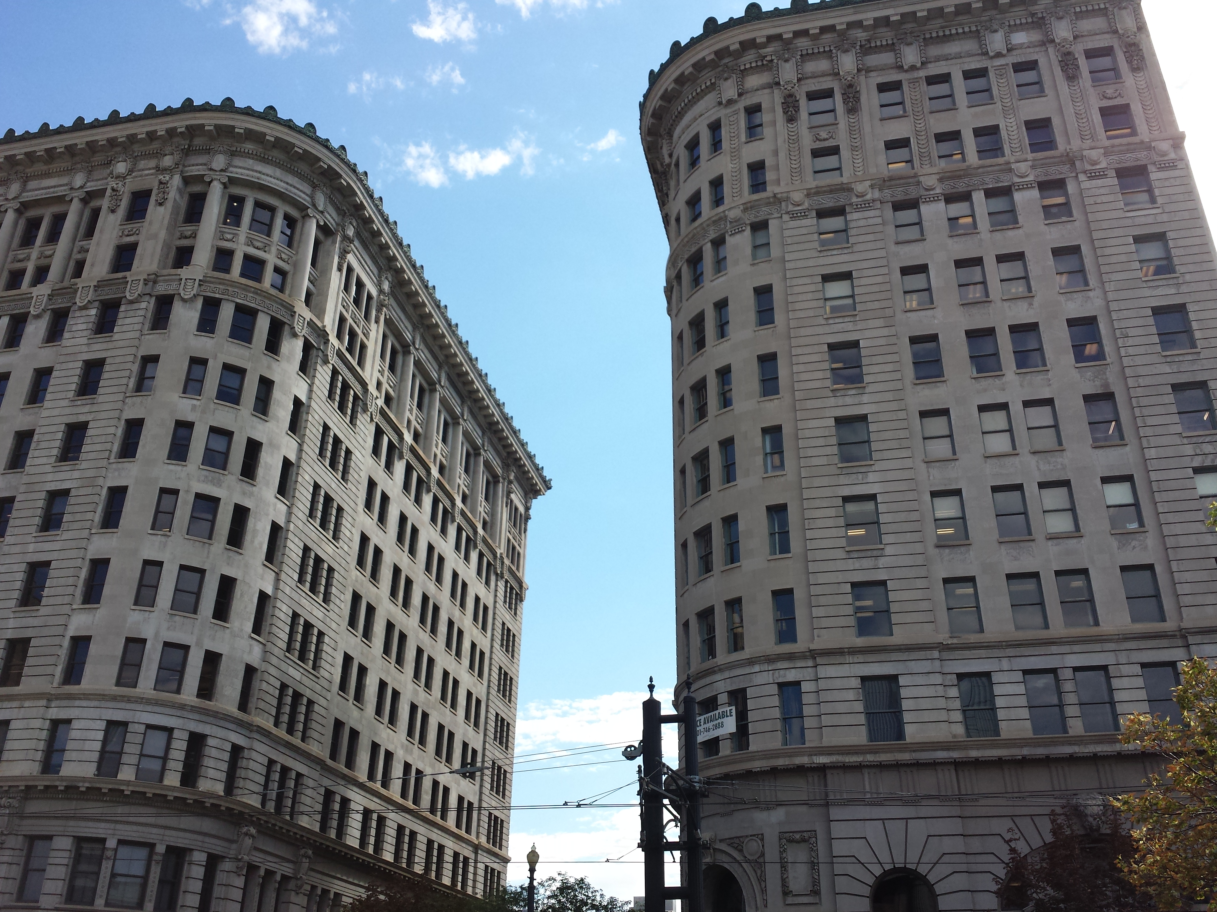 Picture of Exchange Place buildings in that area of Salt Lake City, Utah